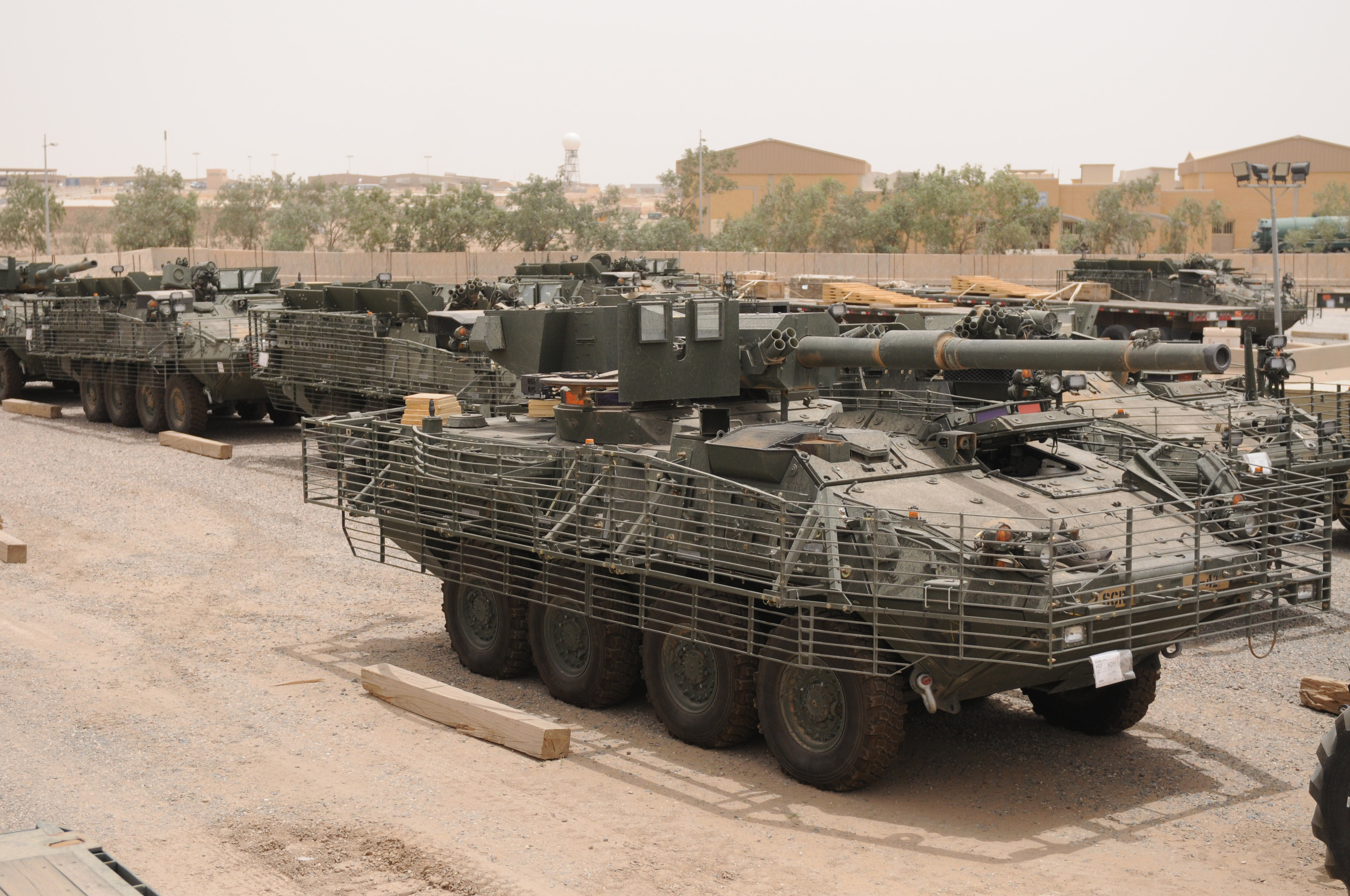 A Stryker vehicle awaits transportation to war-fighters in Afghanistan, in an airfield staging area in southwest Asia. Third Army assists units mobilized in support of Operation Enduring Freedom in moving the war-fighter's equipment and materiel, including Stryker vehicles. This mission critical equipment is being rapidly deployed into Afghanistan by the leader of logistical operations throughout the Central Command area of responsibility in contingency operations Third Army/U.S. Army Central PAO Photo by Sgt. David Nunn Date: 05.31.2010 Location: (Undisclosed Location) Related Photos